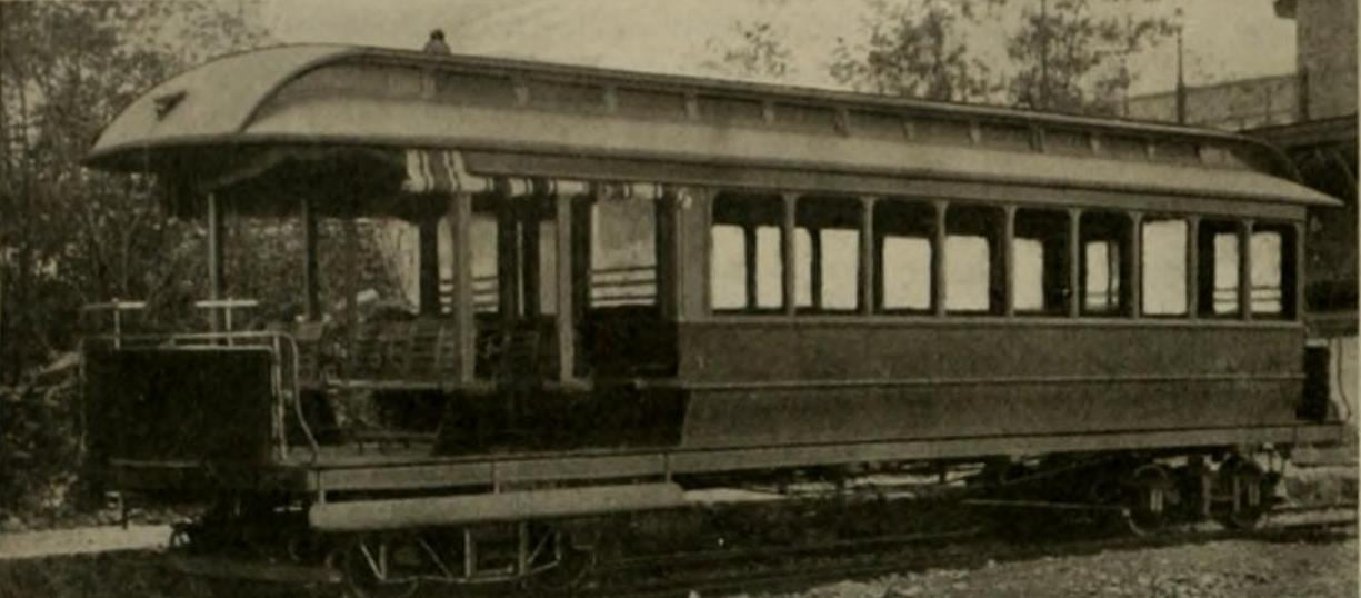 «Combination car for Cable Road, Chicago» (original caption) Title: The street railway review Year: 1891 (1890s) Authors: American Street Railway Association Street Railway Accountants' Association of America American Railway, Mechanical, and Electrical Association Subjects: Street-railroads Publisher: Chicago : Street Railway Review Pub. Co